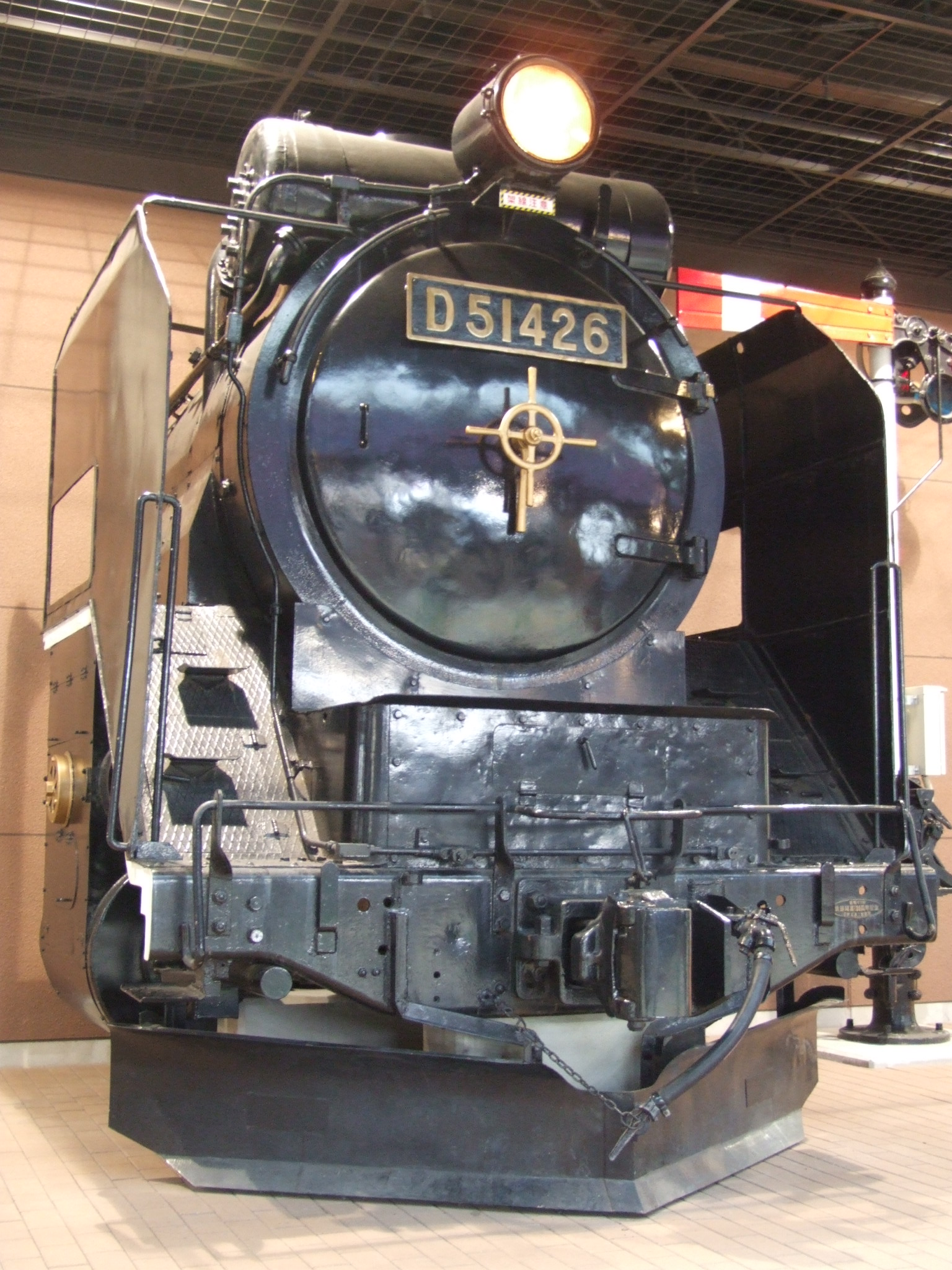 The front end of Class D51 steam locomotive D51 426 at The Railway Museum in Saitama, Saitama, Japan